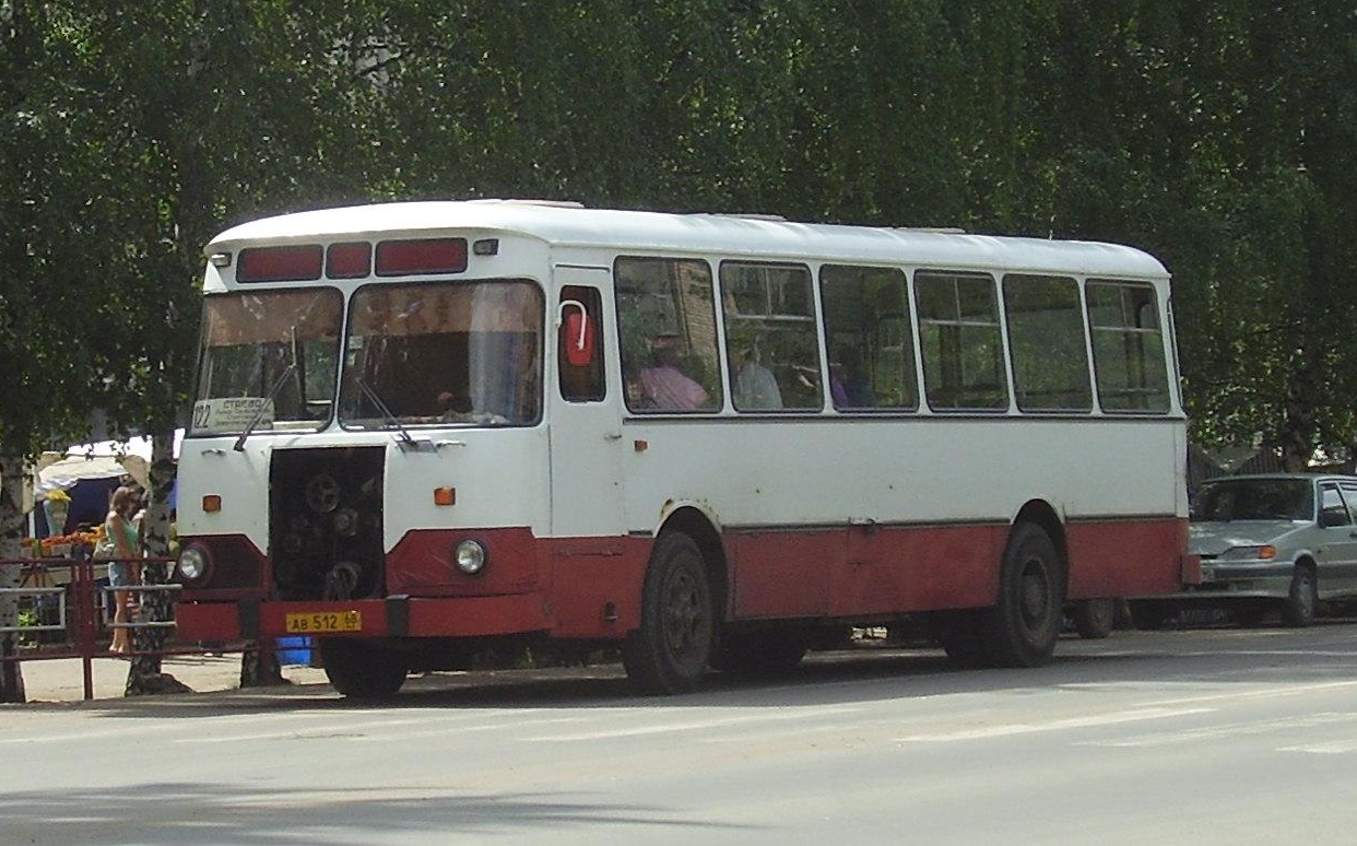 LiAZ-677M in Michurinsk